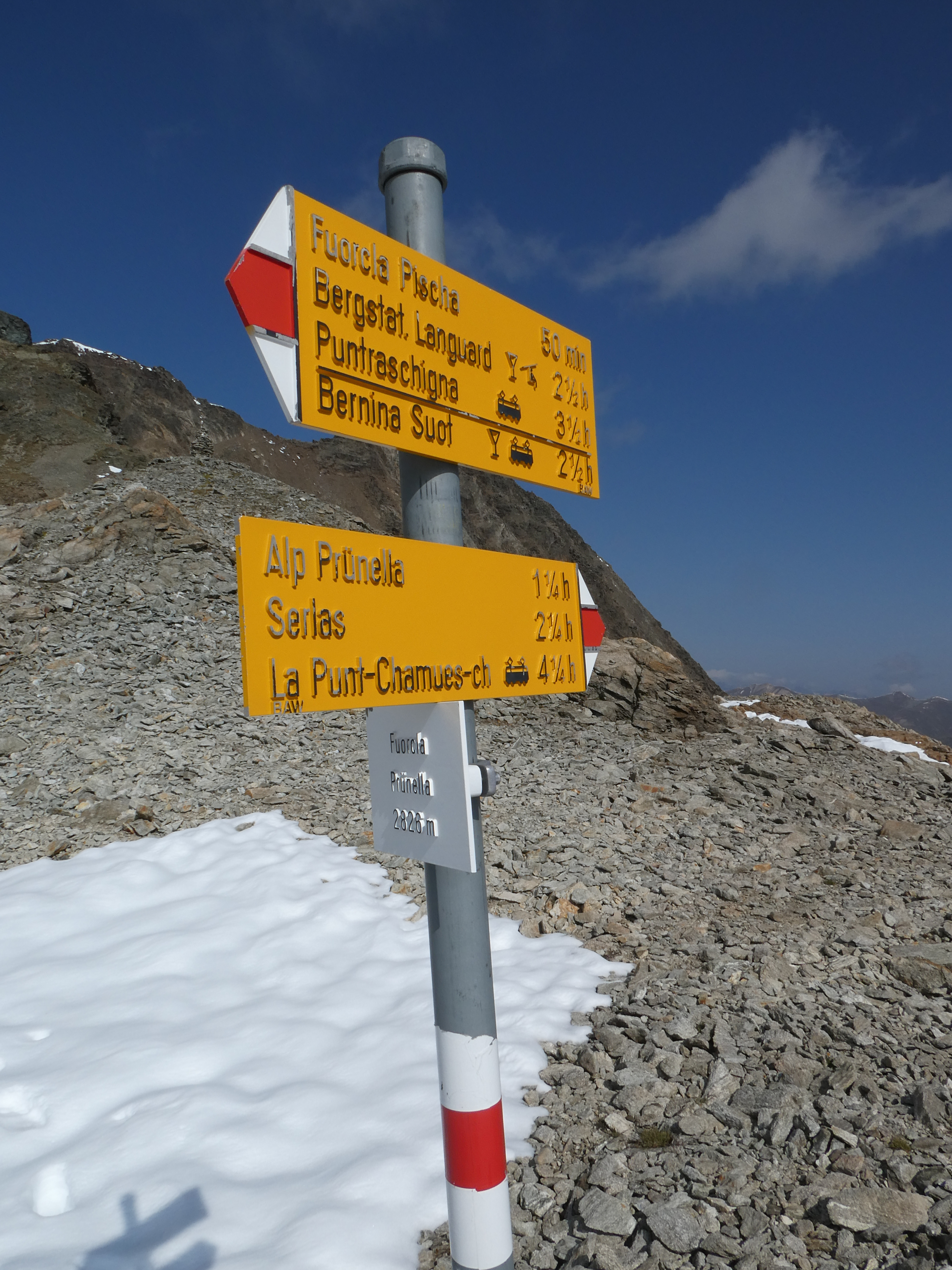 Fingerpost on Fuorcla Prünella (Pontresina/Madulain, Grison, Switzerland)